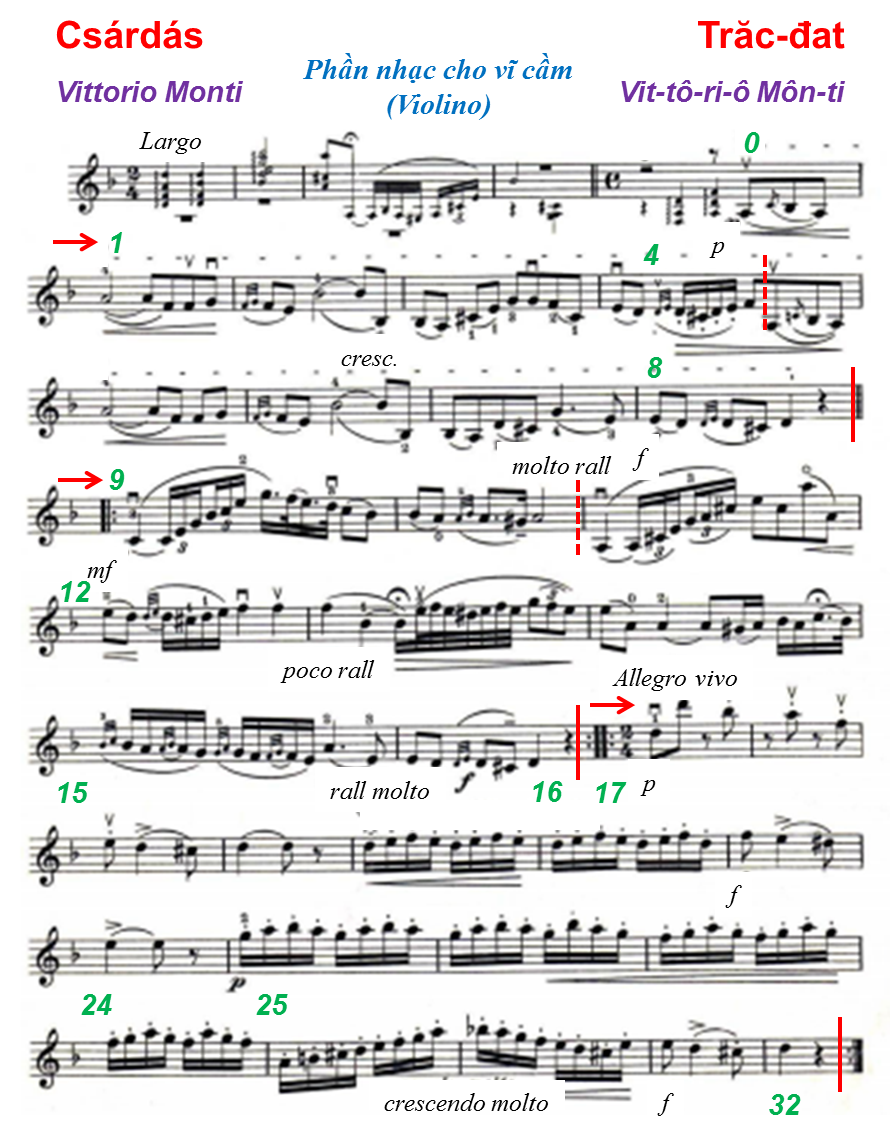 The first 32 spans of Czardas Monti.